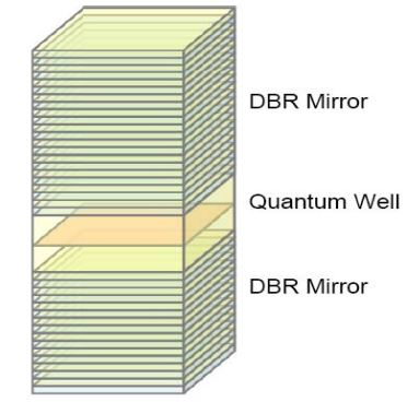 Cavity polariton